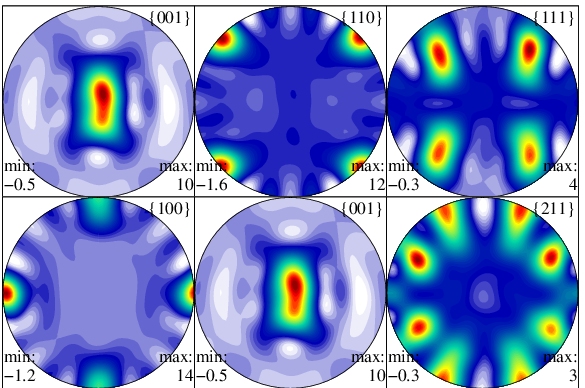 Pole figures displaying crystallographic texture of gamma-TiAl in an alpha2-gamma alloy, as measured by high energy X-rays. Data by Liss et alii[1]. This representation has been calculated using the MAUD Program and displayed with mtex texture tool.